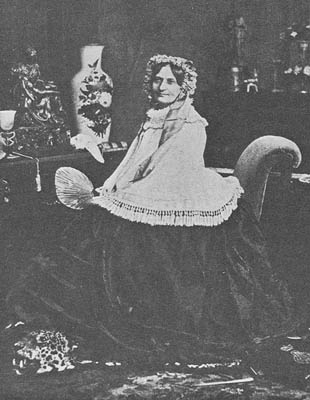 Princess Carolyne Sayn-Wittgenstein in her late years.